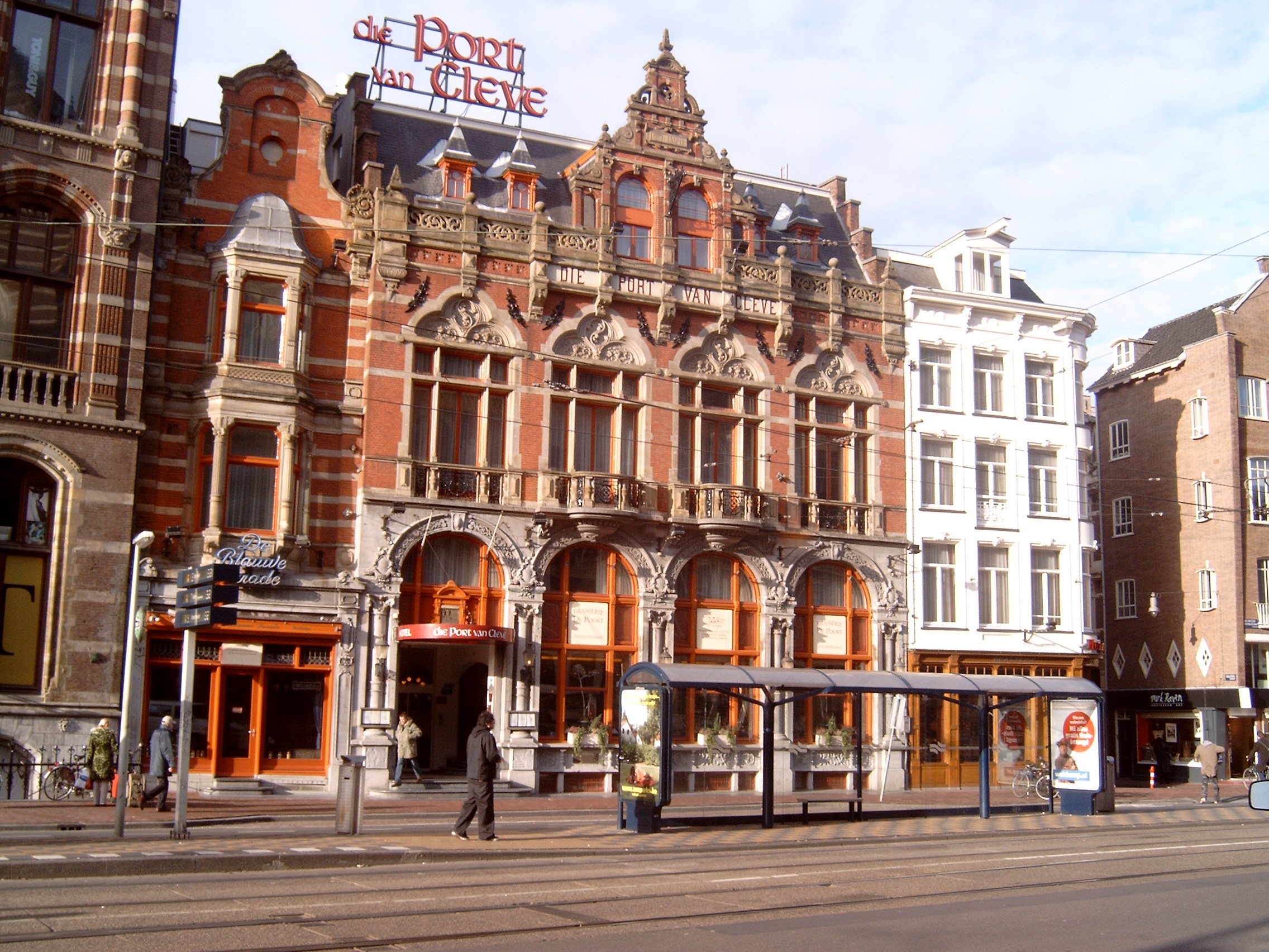 Amsterdam, de Port van Cleve